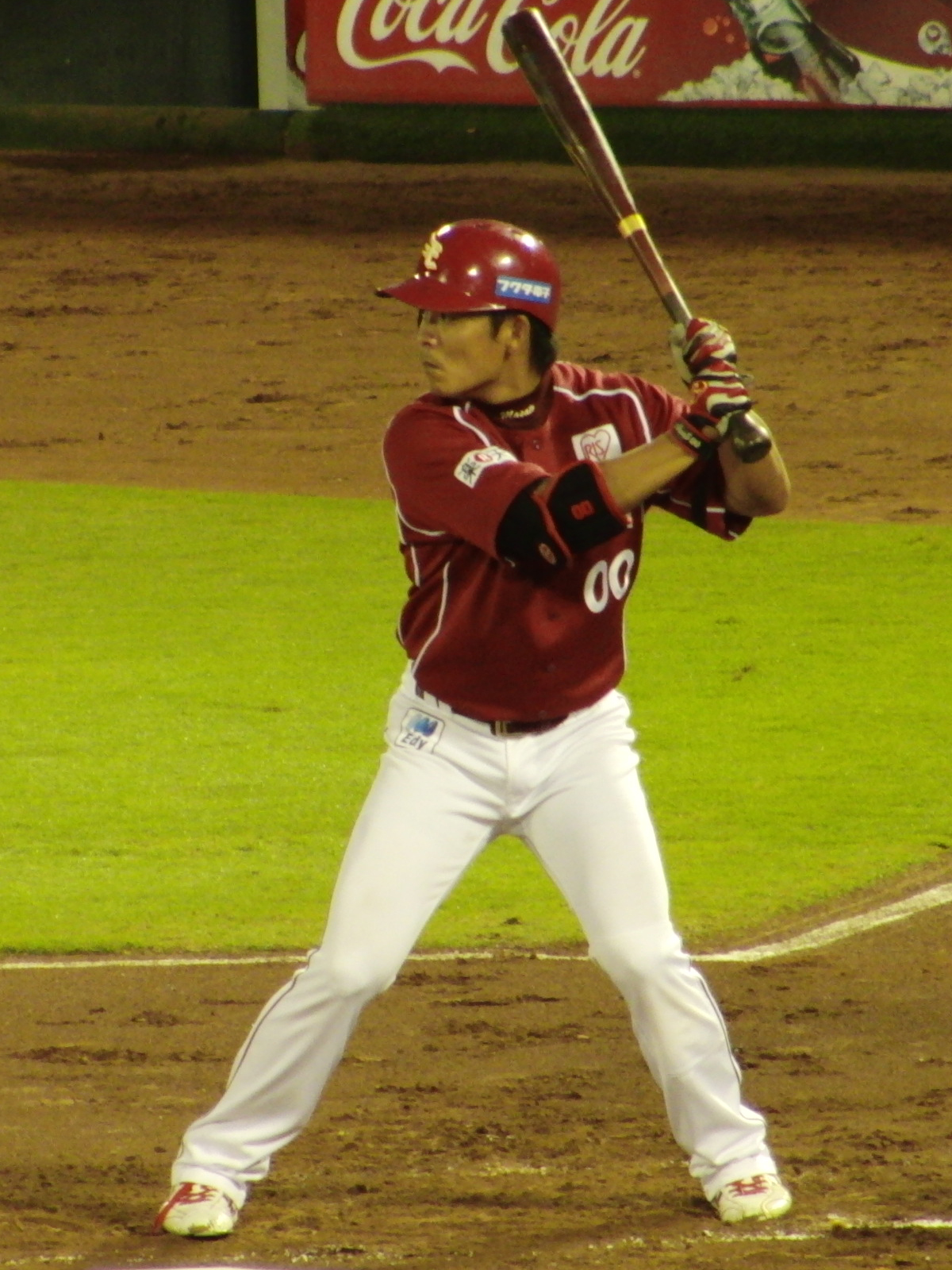 Masato Nakamura, outfielder of the Tohoku Rakuten Golden Eagles, at Kobe Sports Park Baseball Stadium.